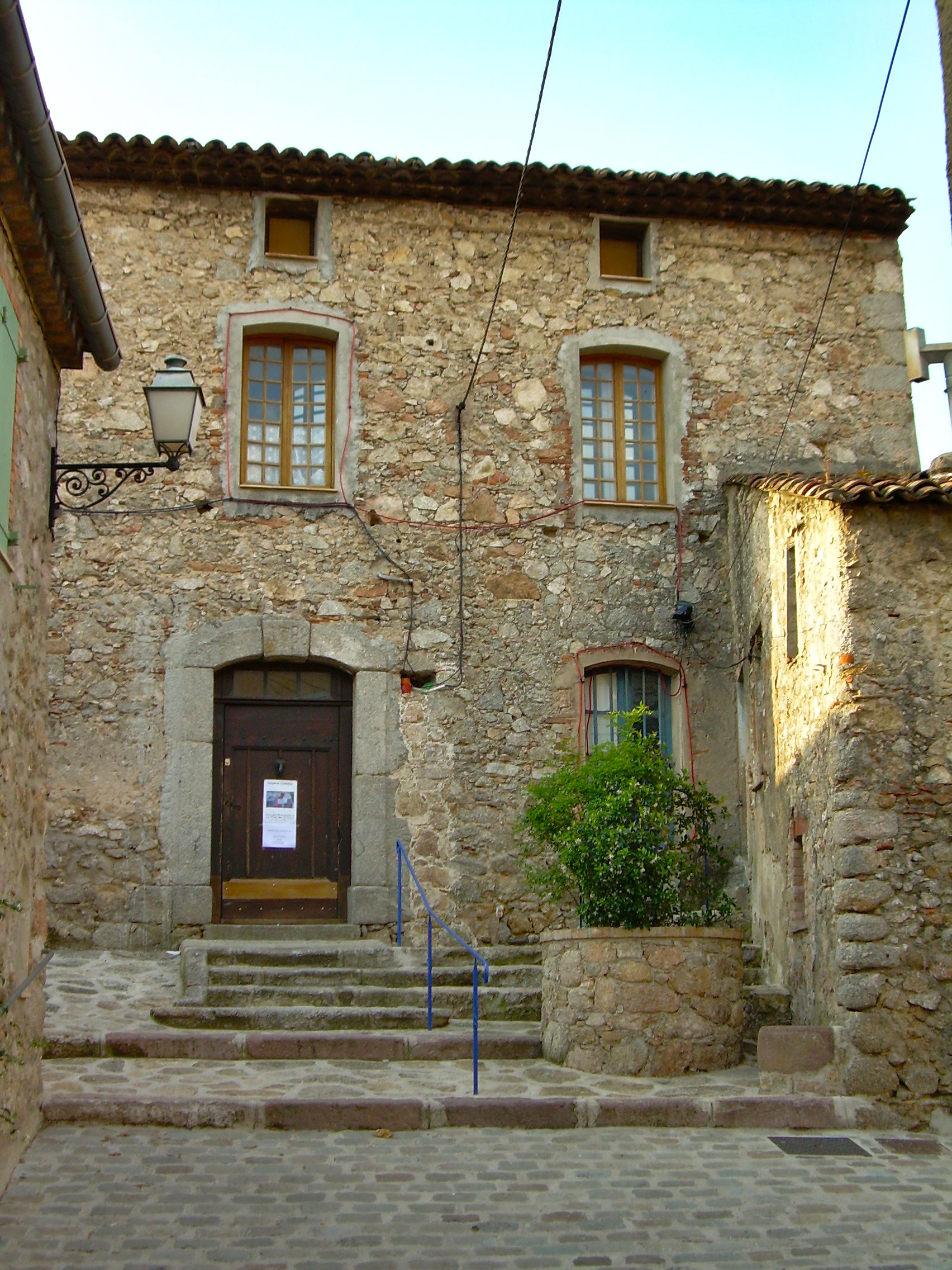 House of the village "Le Plan-de-la-Tour", Var, France